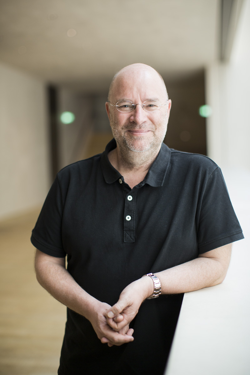 Andreas Rudigier, Foto Darko Todorovic